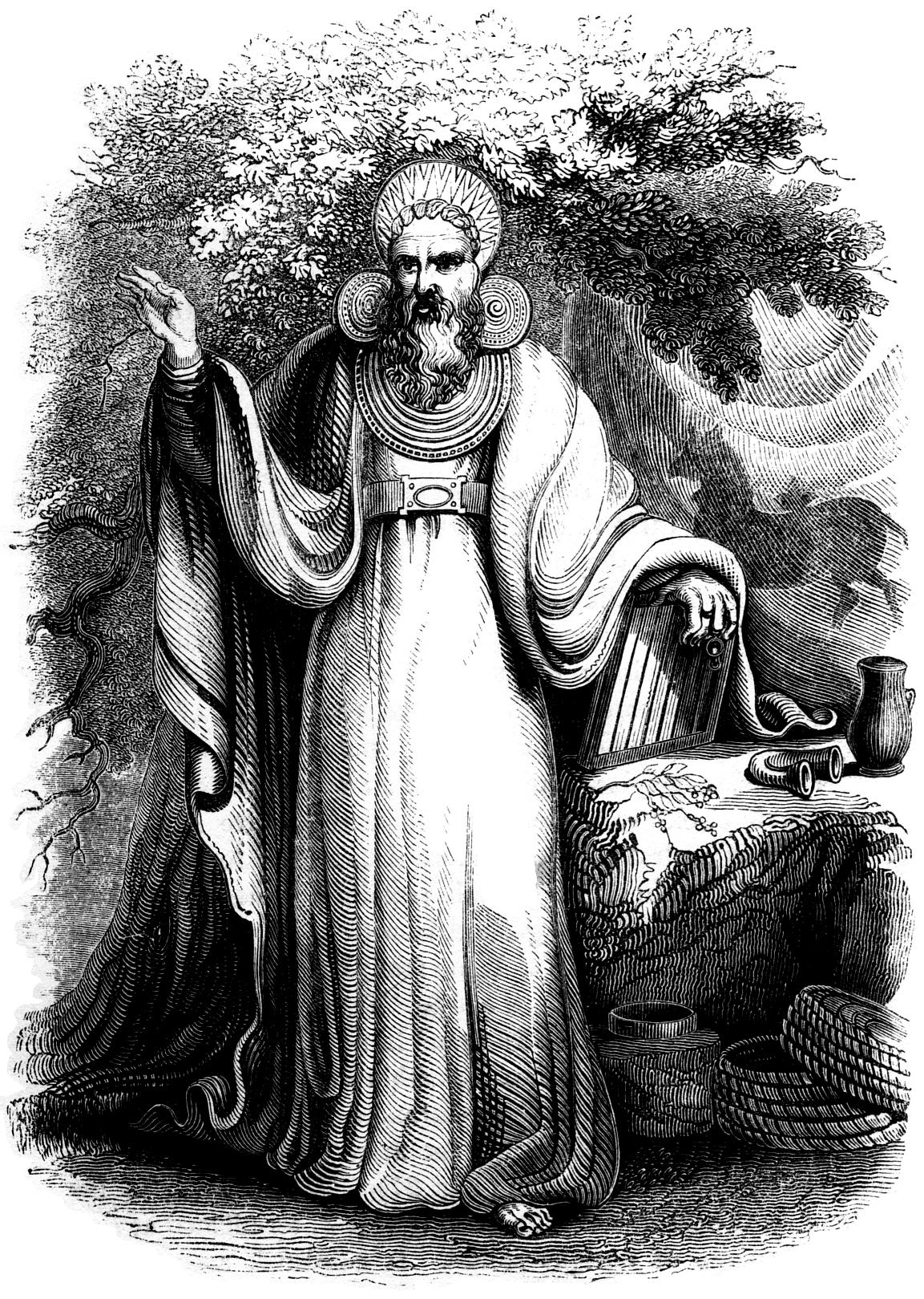 original caption: "Arch-Druid in his full Judicial Costume." description from (Liam Quin): "A fanciful drawing of an Arch-Druid (archdruid) in his full costume, judicial presumably meaning that he is ready to judge over people. An old and stern-looking man with a long flowing beard wears a robe fastened about his chest with a buckled belt. One bare foot protrudes from beneath his robe, showing him to be barefoot. His right hand is raised, although whether in benediction or to request a cup of mead is unclear. He has an elaborate headdress and at his left hand is a jug and I think a drinking horn. There are some baskets on the floor."